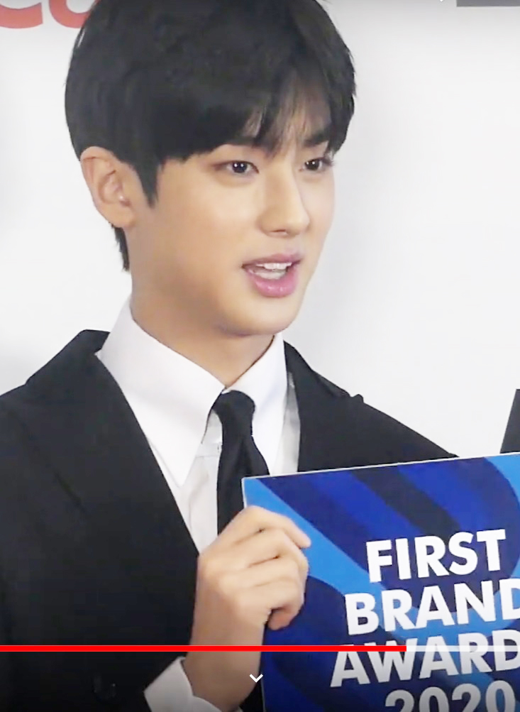 中文（台灣）: 2020 korea brands awards